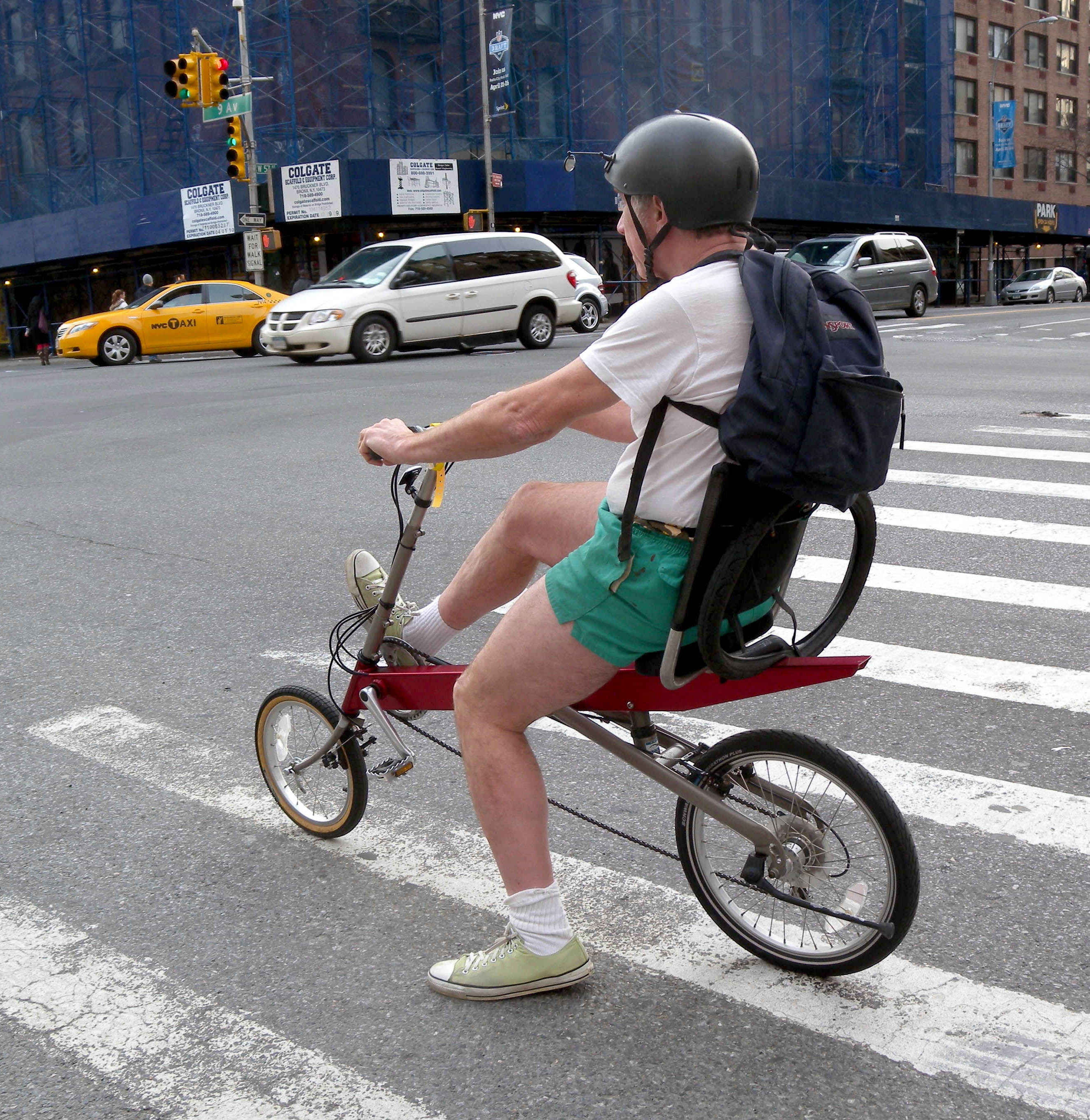 Looking west from 9th Avenue curb as Bike-E awaits green light at 57th Street. See also File:BikE W45 jeh.JPG.